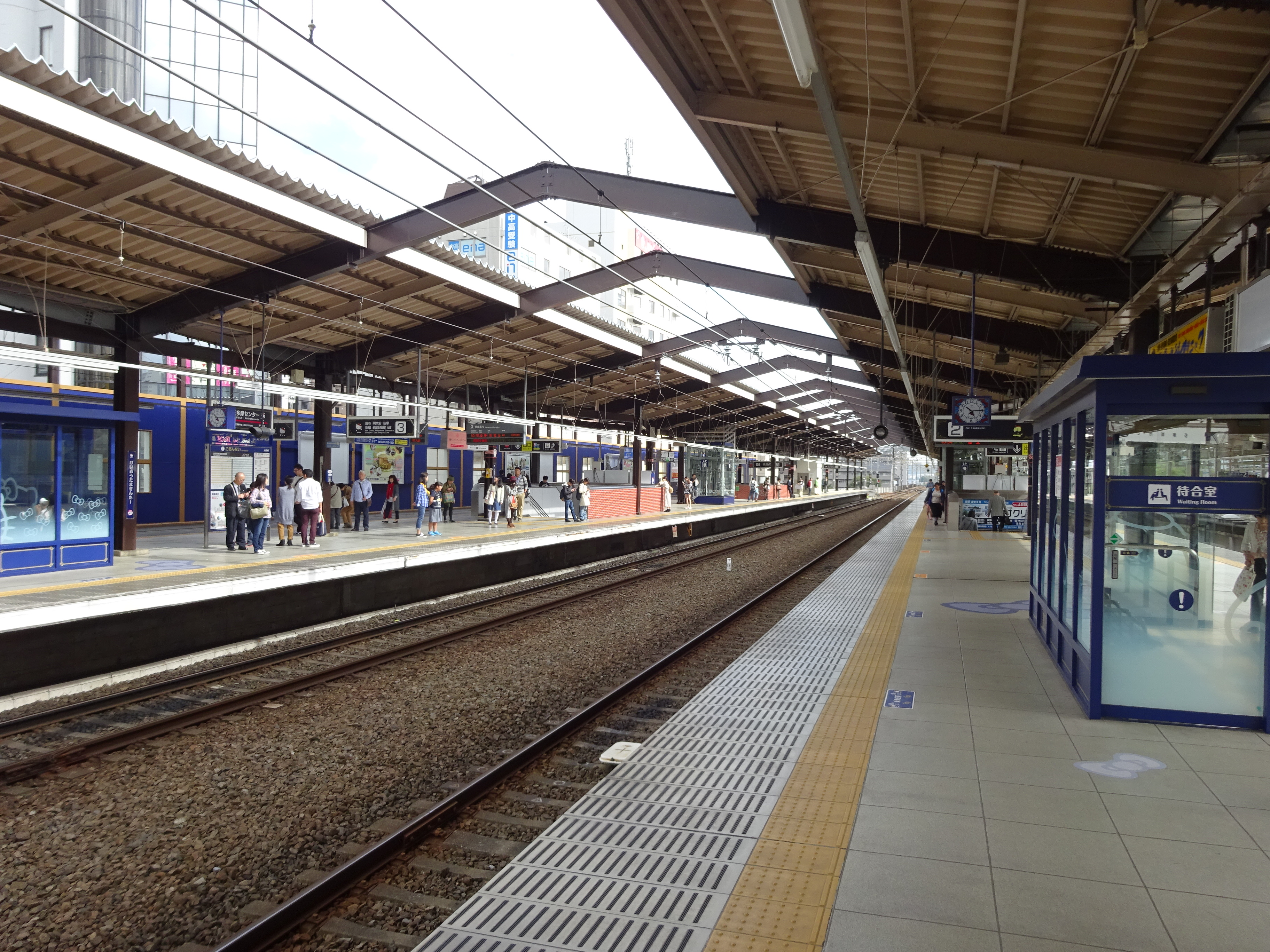 Platforms of Keiō Tama-Center Station